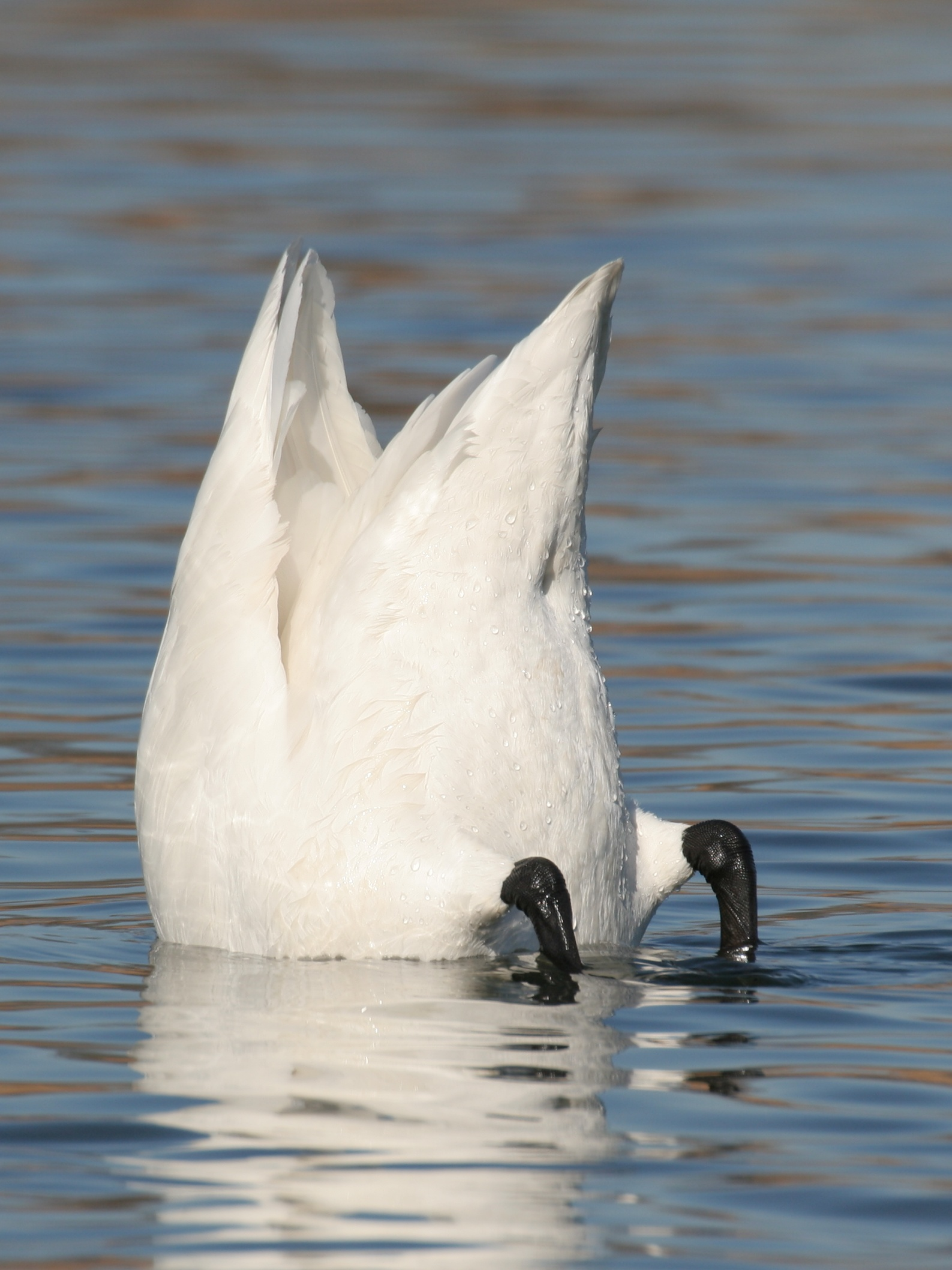 Bewick's Swan, Jan. 2006, Saitama JAPAN ; Japanese description:コハクチョウ 2006年1月 埼玉県川本町 (投稿者自身による撮影)